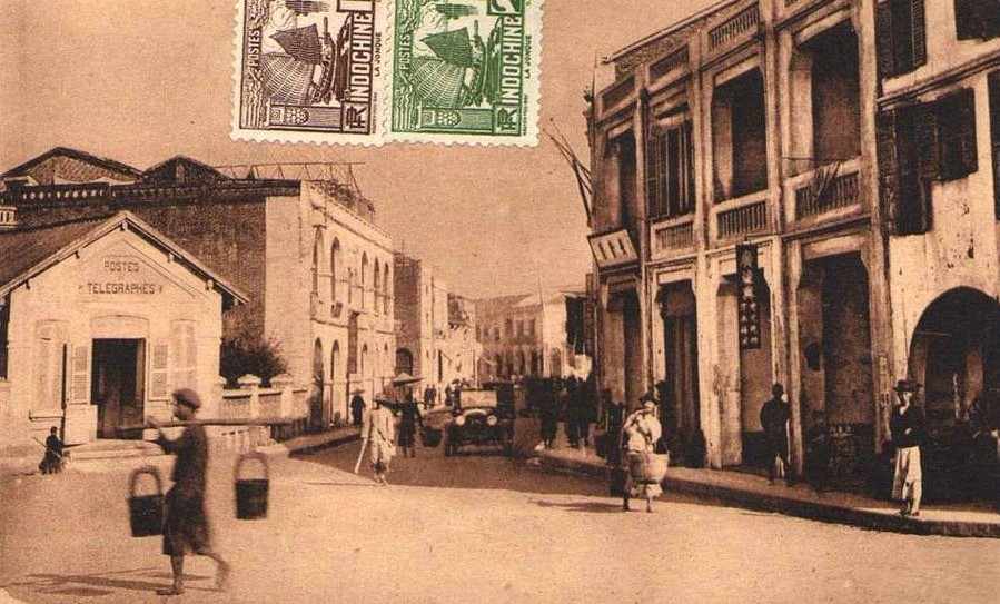 Post & Telegraph building in the French territory of Kwangchowan in the 1920s.